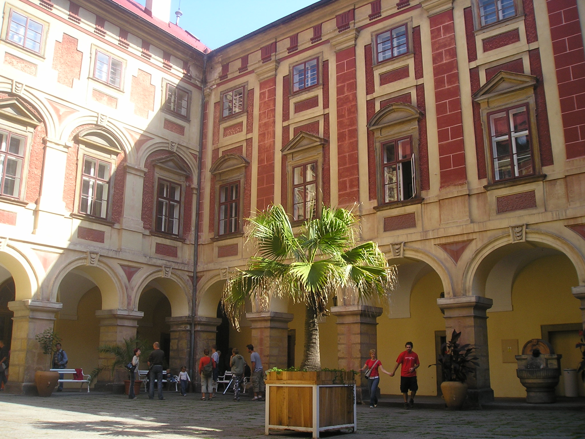 Castle in Libochovice (Czech Republic)